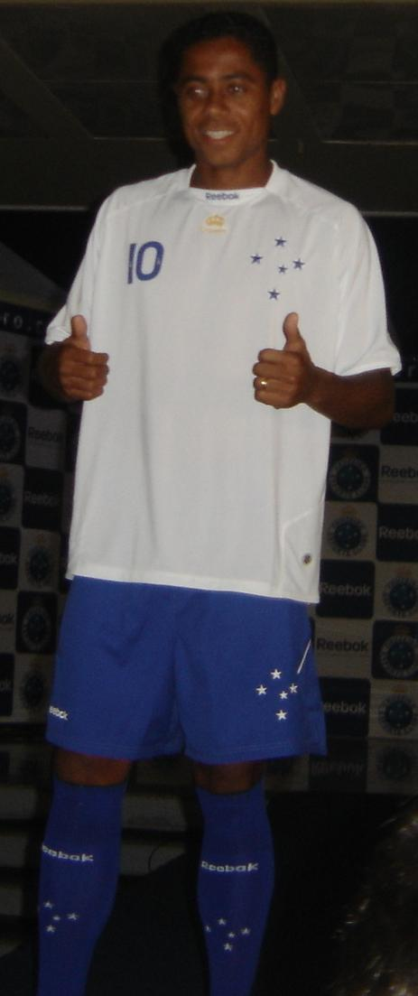 Brazilian football player Marquinhos Paraná